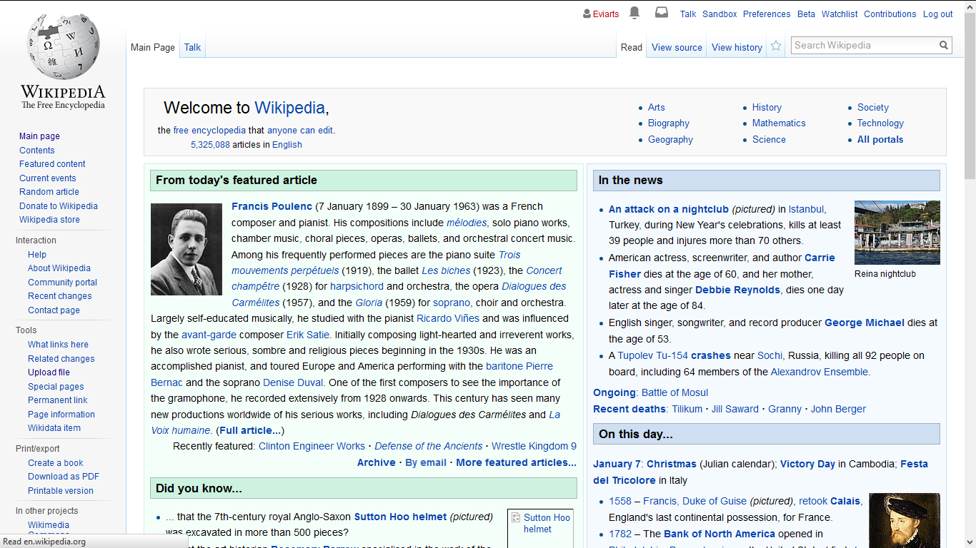 main page of wikipedia